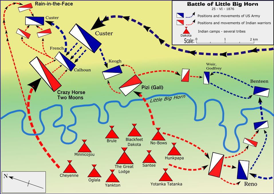 Battle of the Little Bighorn - english version Author: Piotr Tysarczyk Polish version (Polski) in .svg format German version in .png format